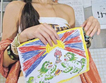 Chan Hau Man, Christina Photo by Kamyan